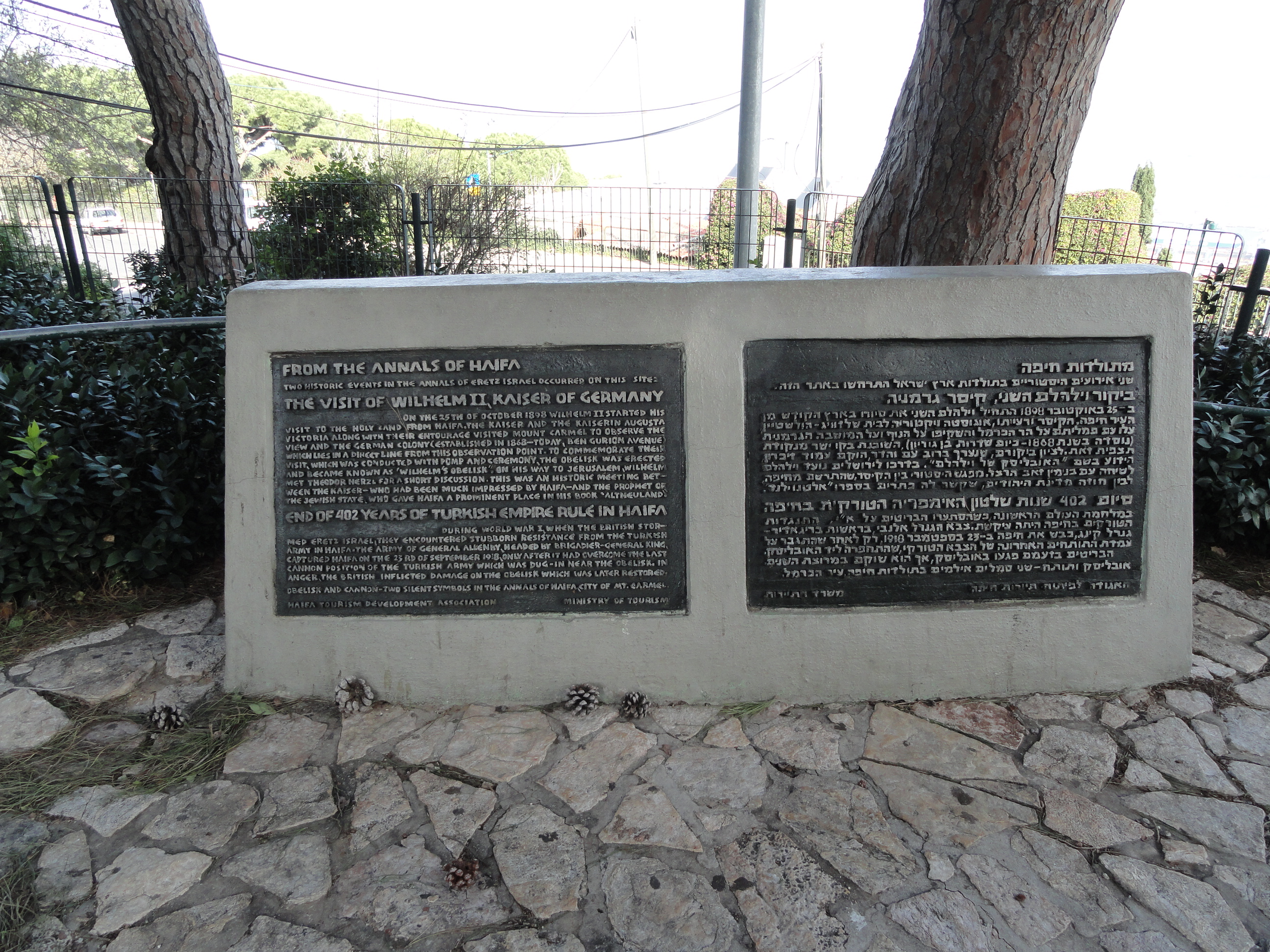 Yefe Nof garden: memorial for the Kayser Wilhem II visit and memorial for the capture à Haifa and the liberation from the Turkish empire.